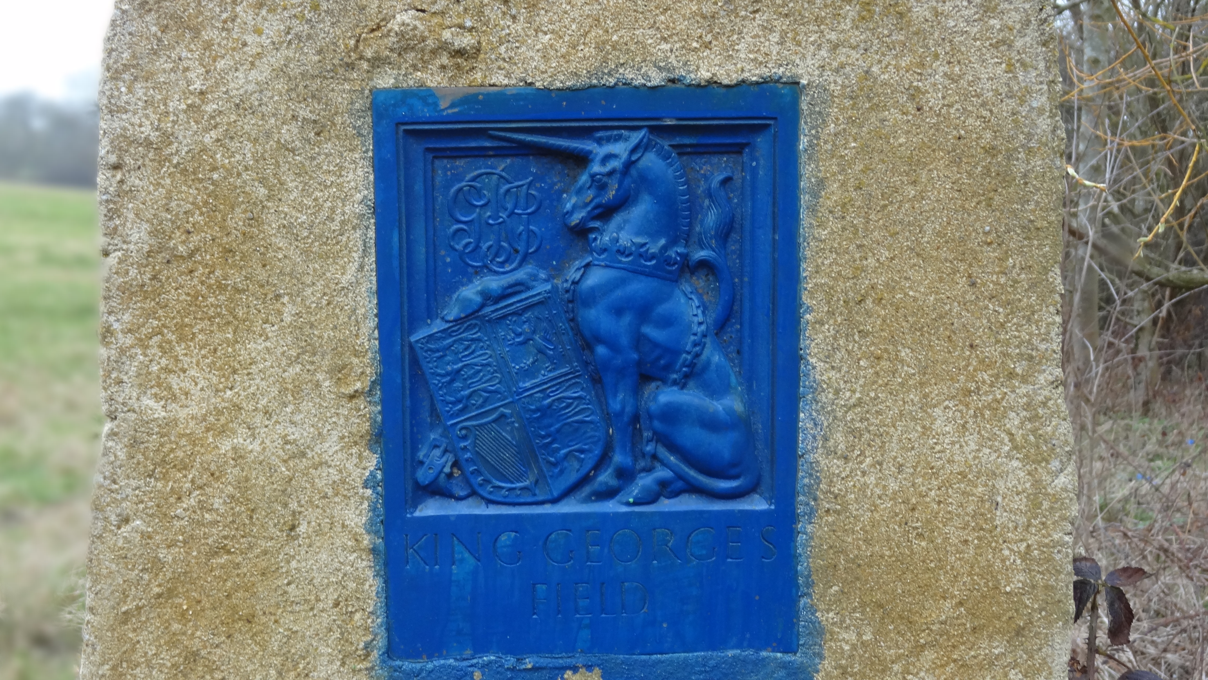 Logo of King George V Playing Fields on a concrete plinth in a farmer's field south west of the junction of Dollis Brook and Barnet Lane, Totteridge, Barnet, London. Shortly after this photo was taken the plinth was vandalised and the logo removed.